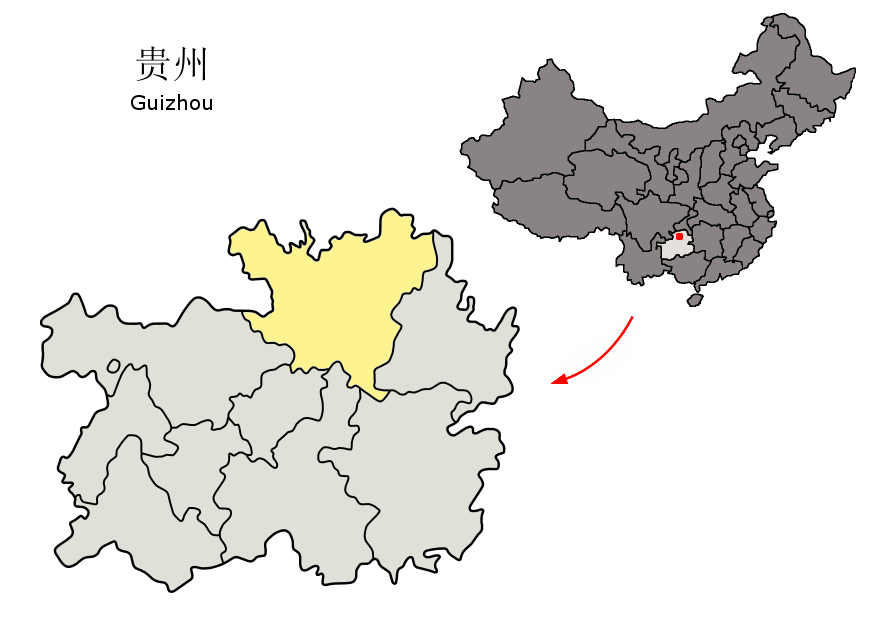 Location of Zunyi Prefecture (yellow) within Guizhou province of China Map drawn in november 2007 using various sources, mainly : Guizhou province administrative regions GIS data: 1:1M, County level, 1990 Guizhou Counties map from